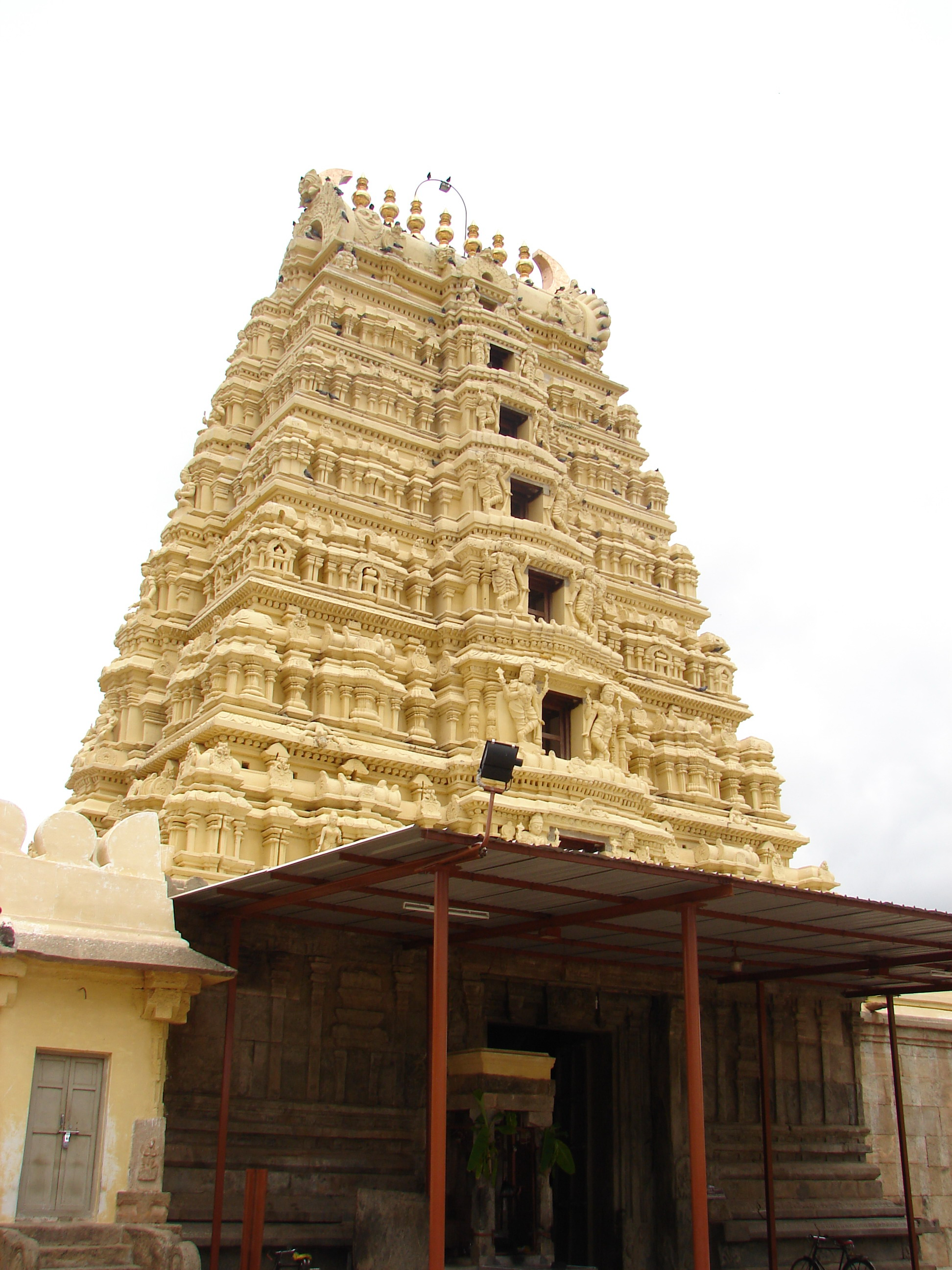 This photograph was taken by me at the Saumyakeshava temple in Nagamangala, Mandya district, Karnataka state, India. The stellate shrine and closed mantapa (hall) are a 12th century A.D. construction and is attributed to the Hoysala Empire. The outer gopura (tower over entrance gate) seen here is a later Vijayanagara Empire (14th-16th century) addition.